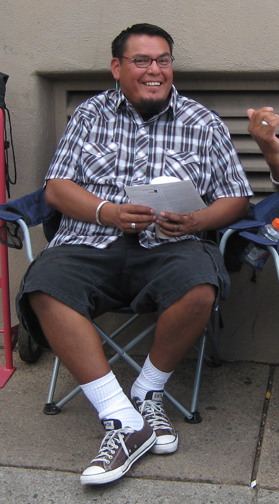 Ryan Singer, Navajo artist